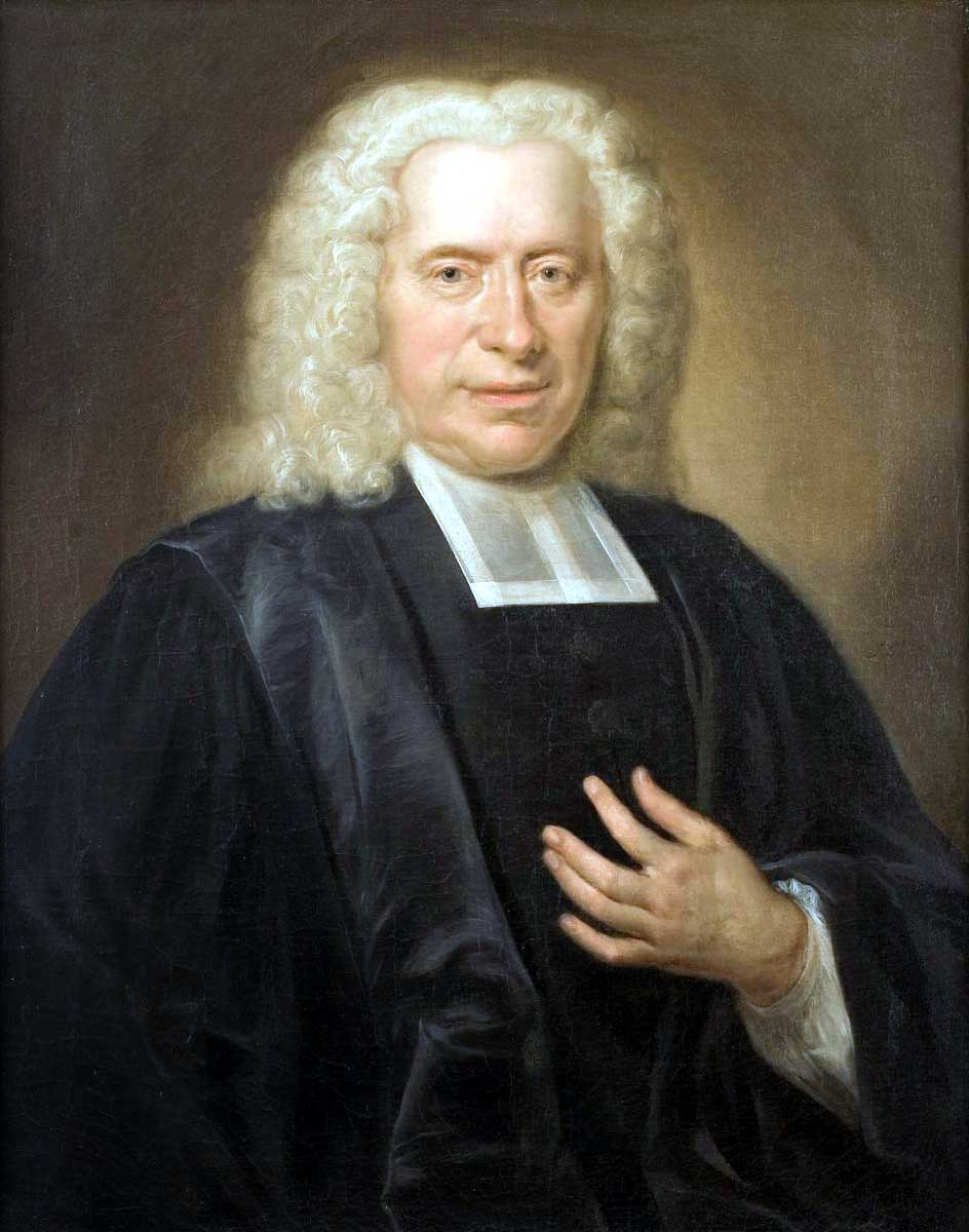 Johannes Wessel also: Wesselius (1671-1745) Duitse gereformeerde theoloog